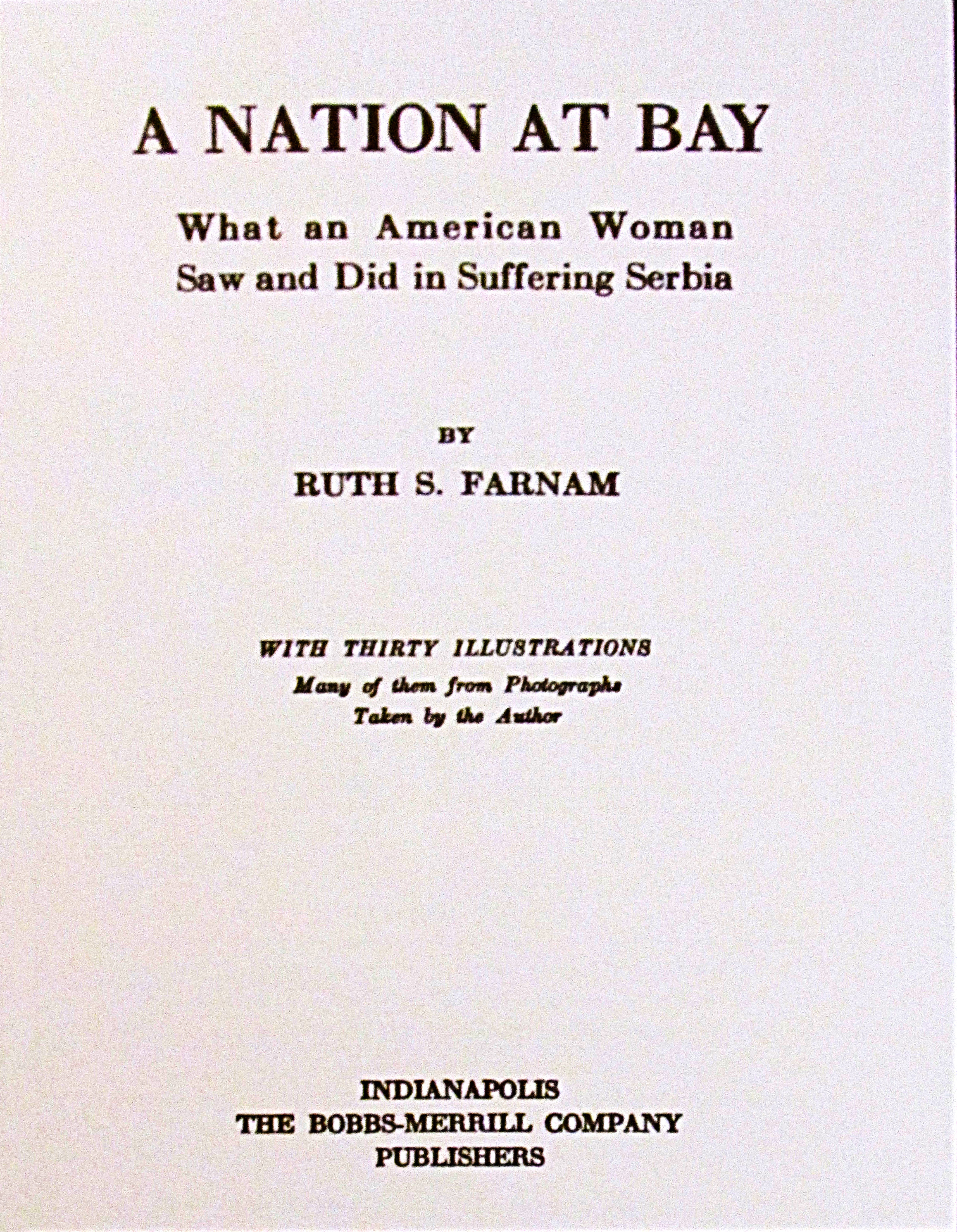 A Nation at Bay by Ruth Stanley Farnam